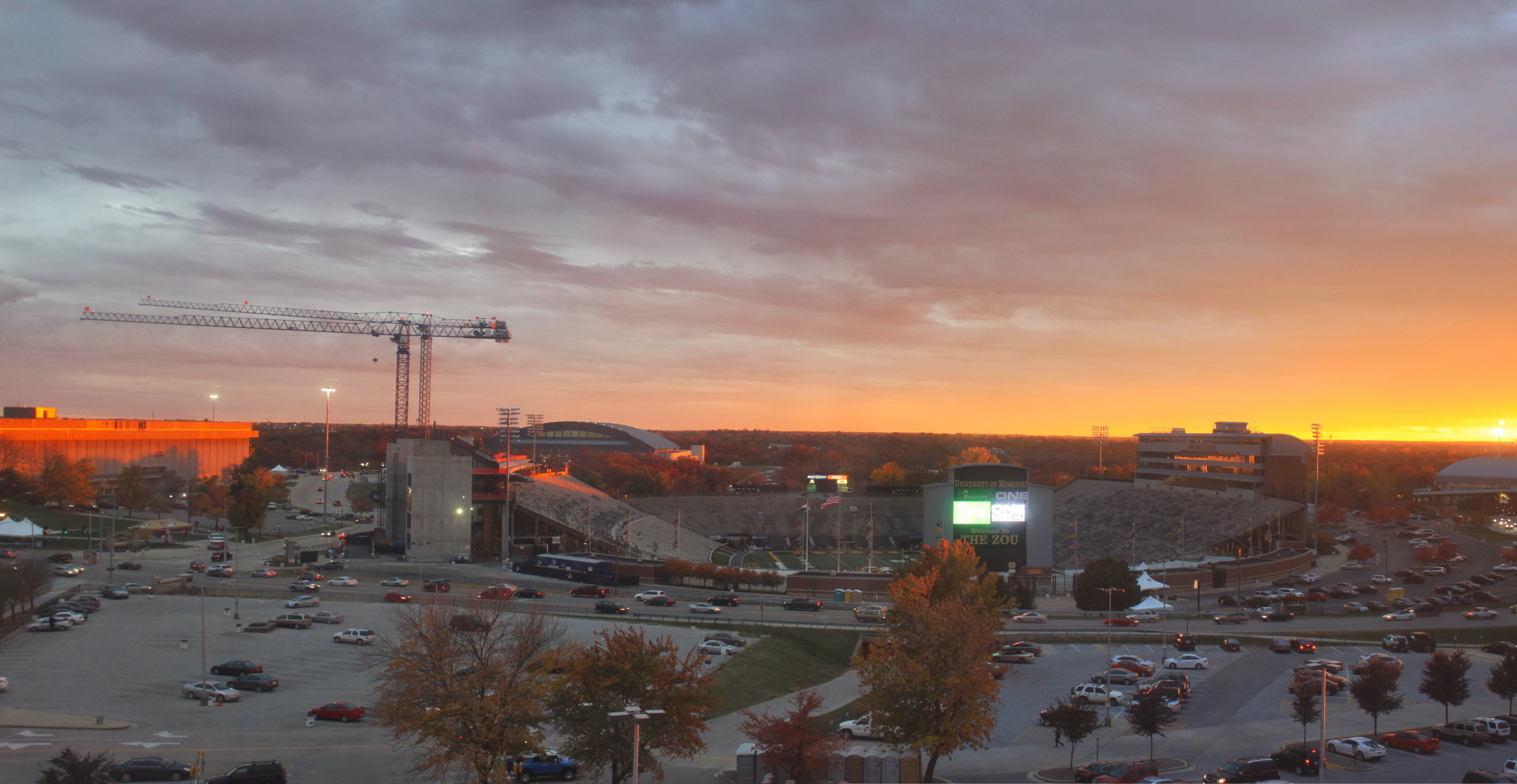 Faurot Field at sunset taken from the eighth floor of Laws Hall.